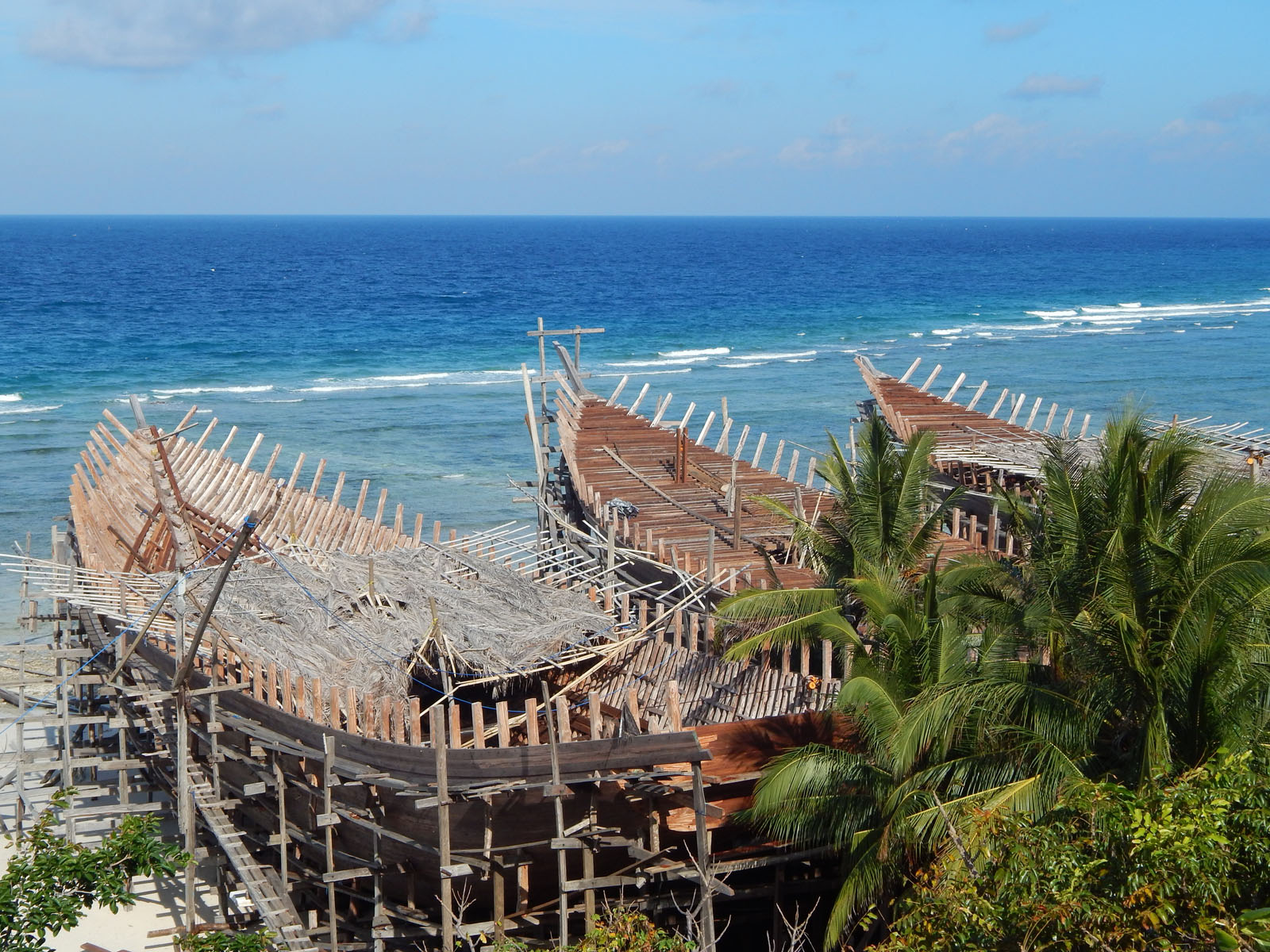 Traditional ship building in Bira, South Sulawesi